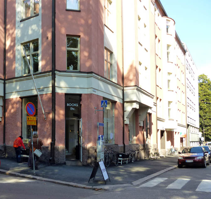 Nervanderinkatu street corner, Töölö, Helsinki, 2013